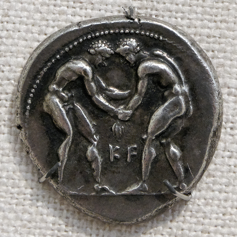 Wrestlers. Obverse of a silver tetradrachm of Aspendos, Pamphilia.